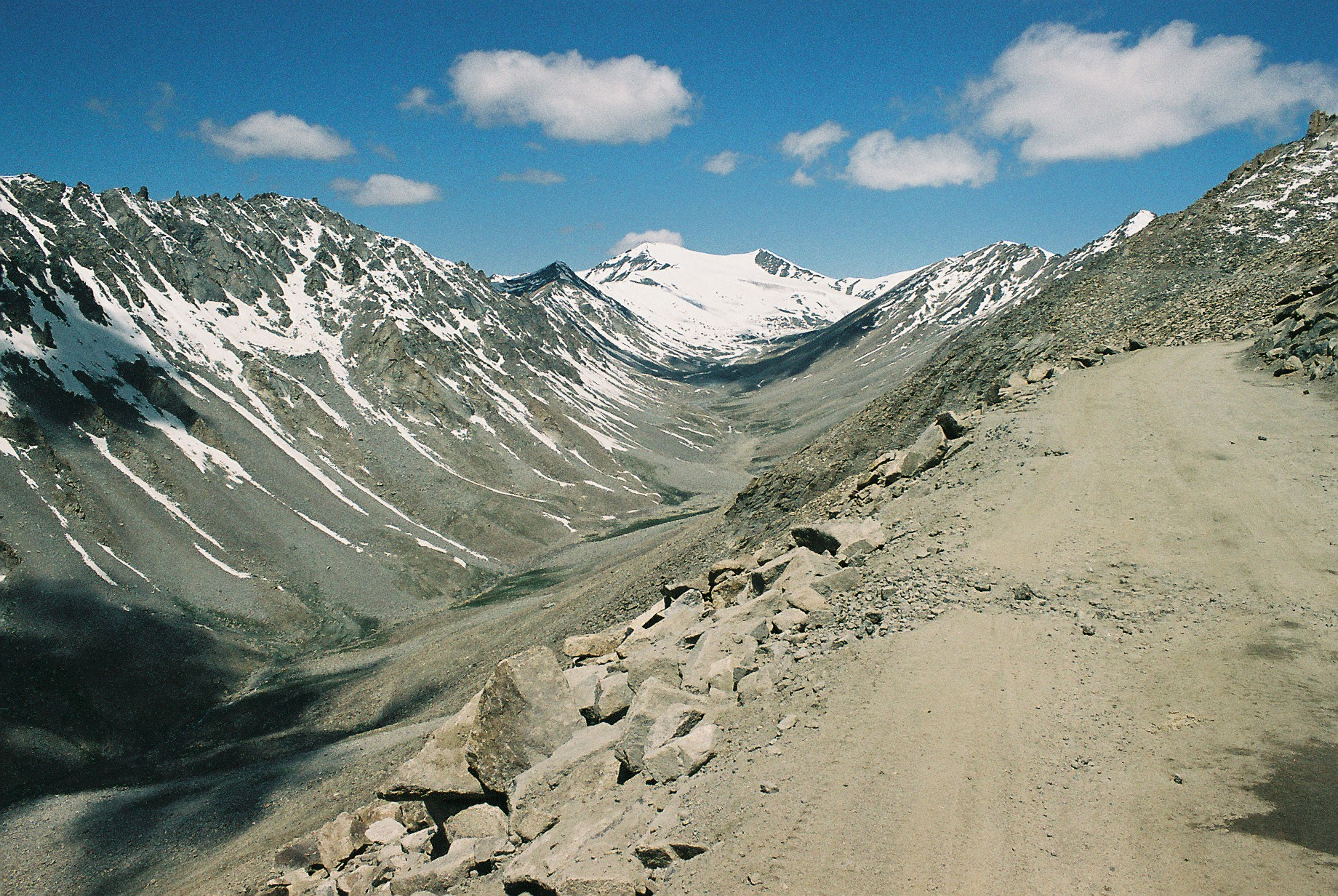 Glacial valley at the head of Leh valley, Ladakh, NW India. Valley is immediately south of the pass of Khardung La. Leh valley glacier is visible at the top of the valley.